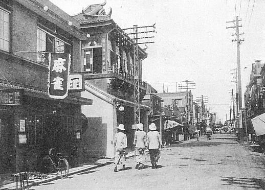 Yokohama-Nankinmachi(present-day "Yokohama Chinatown") circa 1930